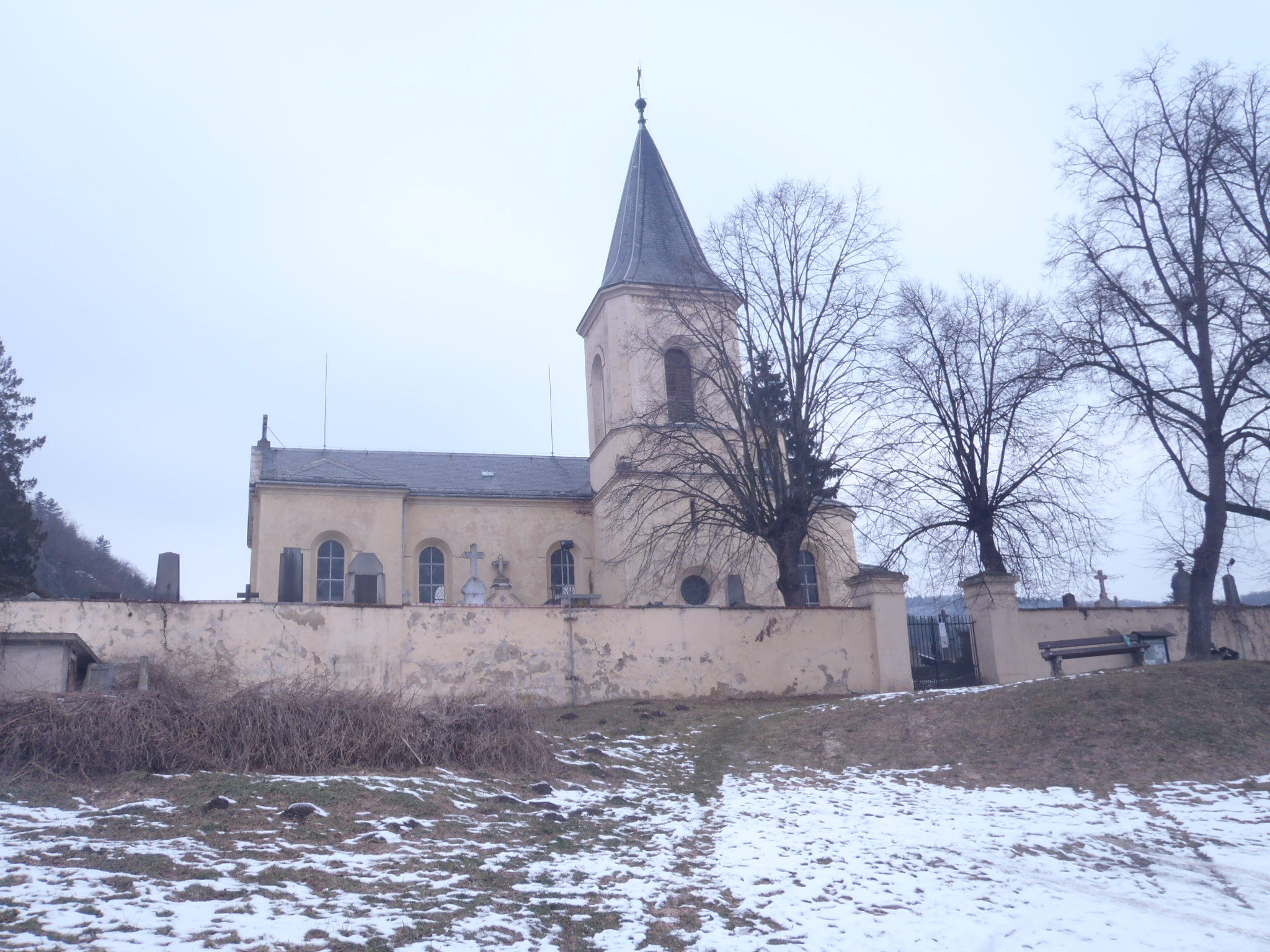 The church of St. Martin and St. Prokop in Karlík